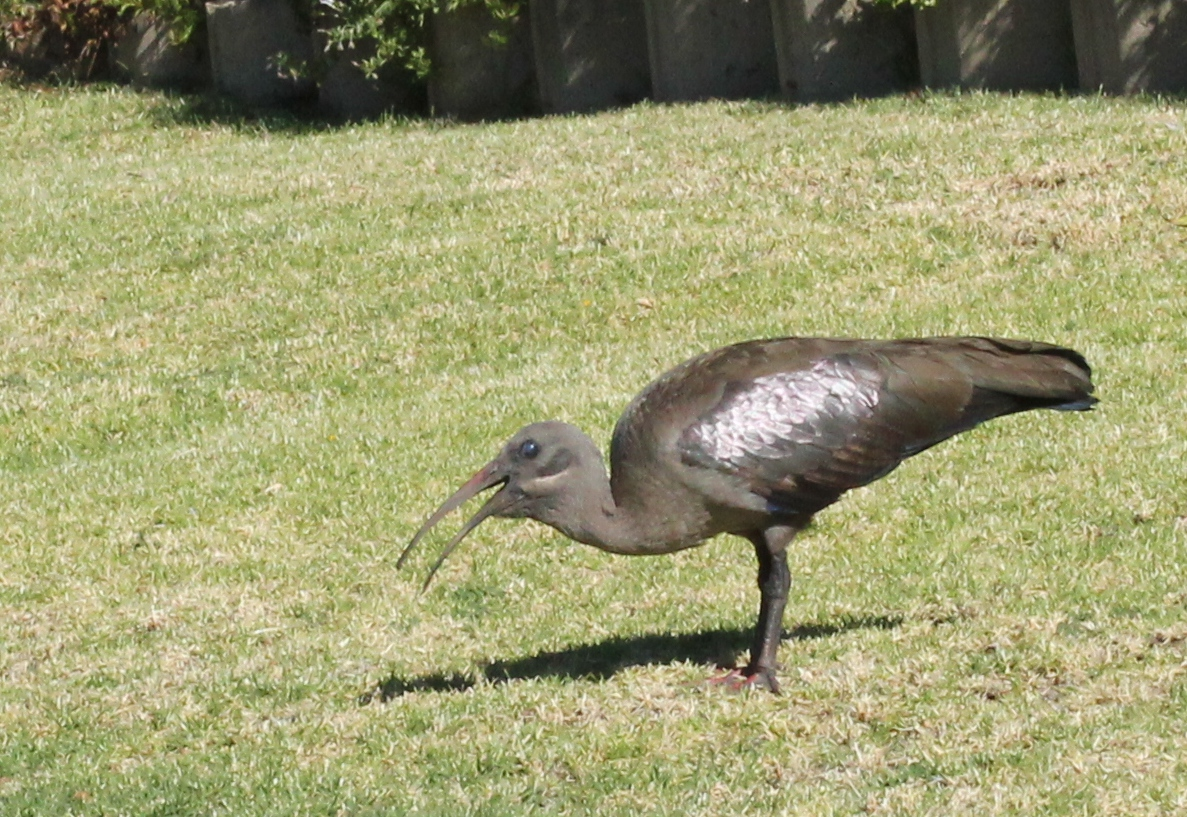 on suburban lawn. Nictitating membrane closed as it swallows an insect extracted from soil. Note characteristic iridescent area on wings of otherwise dull-brown and grey bird